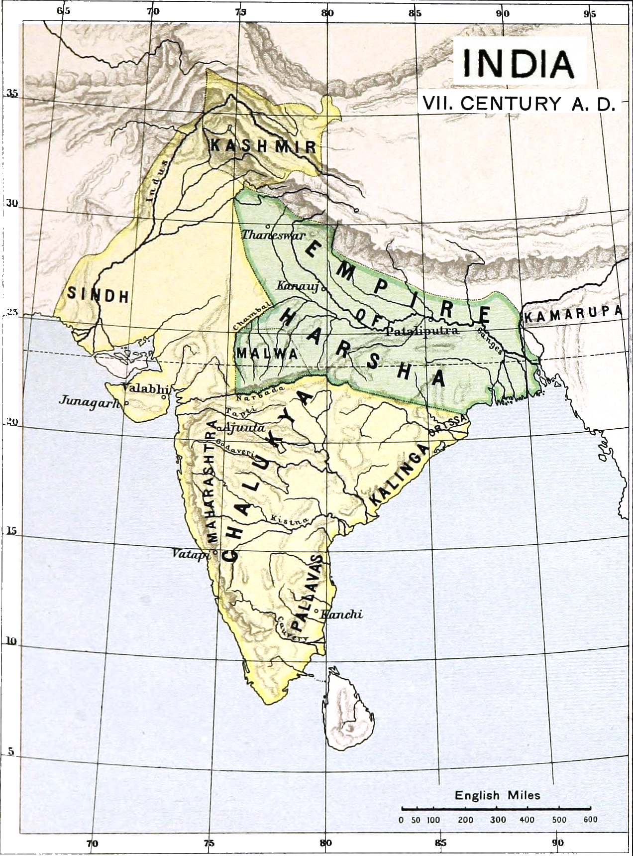 India 7th century AD